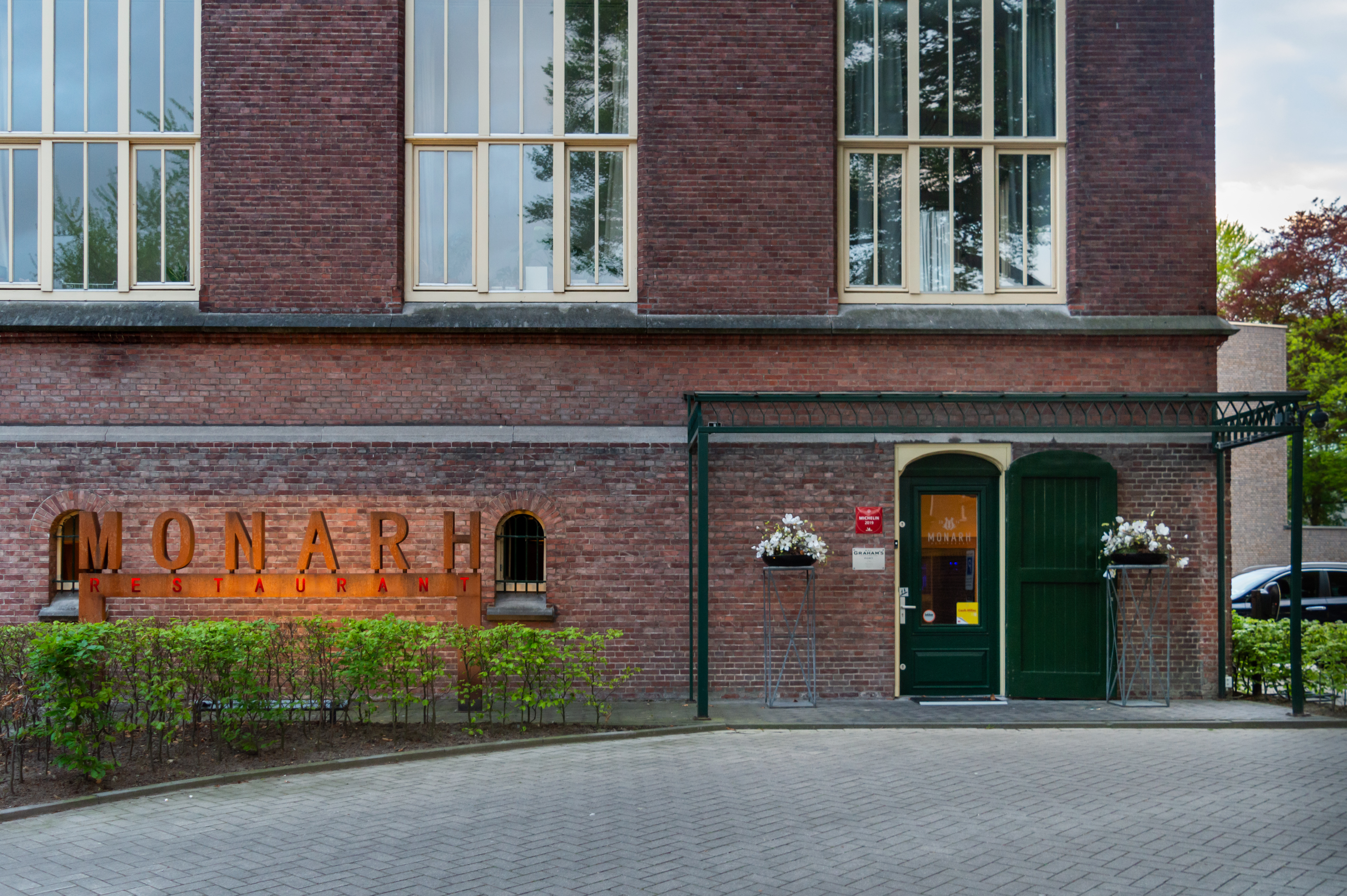 The entrance and sign of Restaurant Monarh, a restaurant that received one Michelin star in 2019, on a Friday evening. It is located inside the former "mission home" of the "Missionaries of the Sacred Heart" ('rooi harten') at Bredaseweg 204-08 in Tilburg.